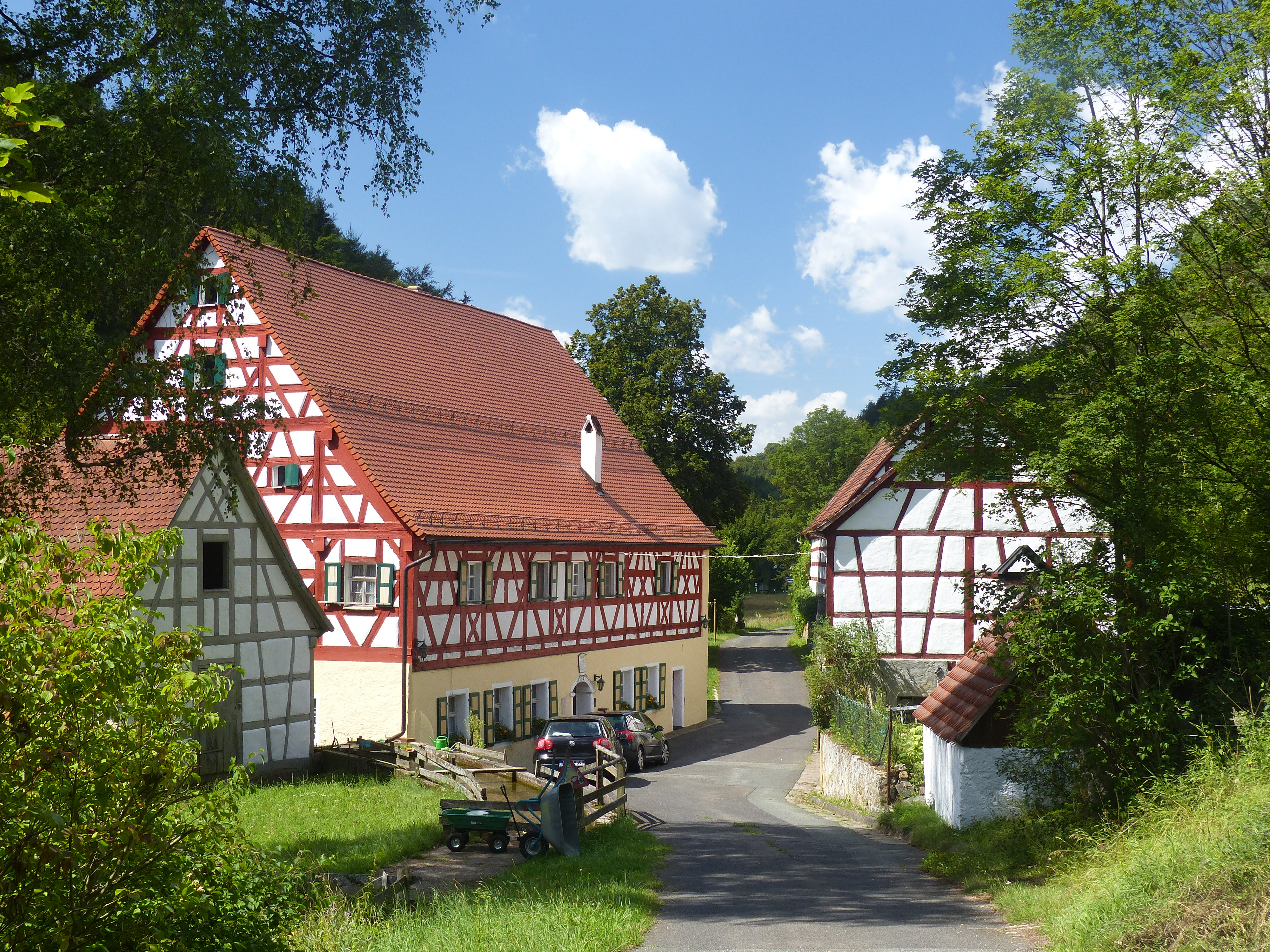 The main building of the Ziegelmühle, a district of the municipality of Obertrubach.